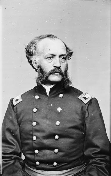 Hiram Berdan (1824 – 1893), engineer and Union Army General, commander of sharpshooters during the American Civil War.